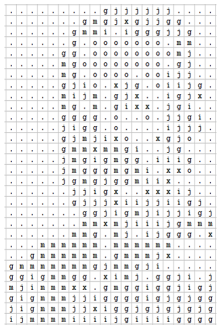 Giorgio V — Picture's Code